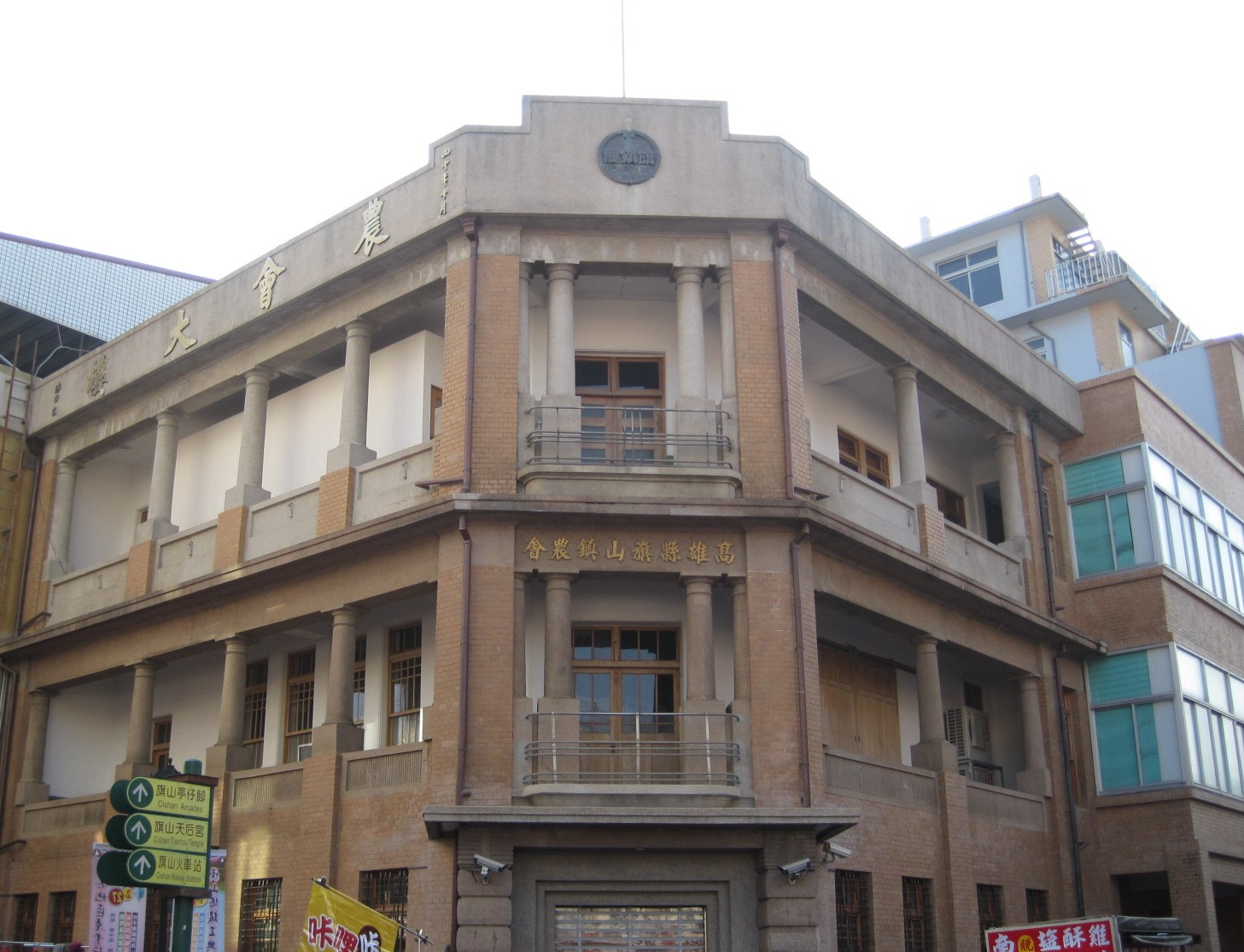 Cishan Farmers' Association中文（台灣）: 高雄市旗山區農會。